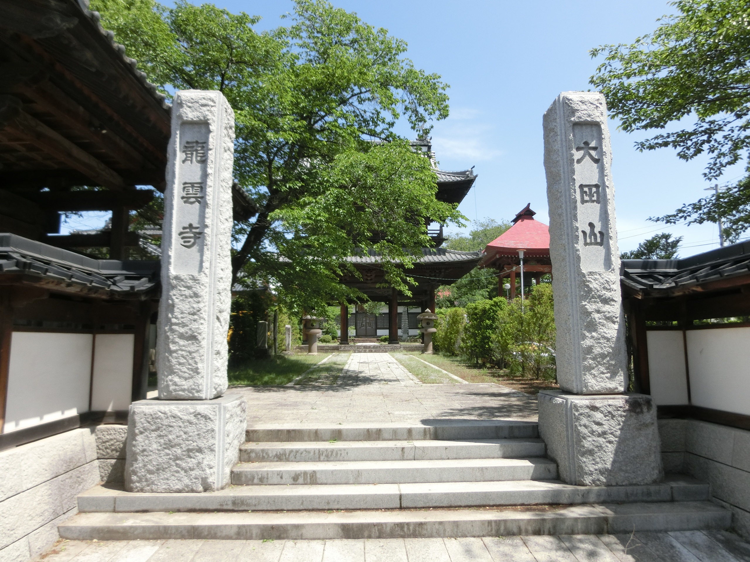 Ryuun-ji (Saku)